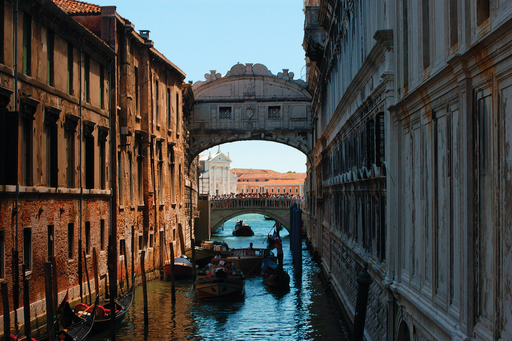 Ponte dei Sospiri, or the Bridge of Sighs, Venice, Italy.